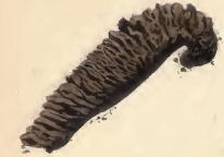 Stainton’s Natural History of the Tineina (1855–1873): Coleophora vitisella larval case